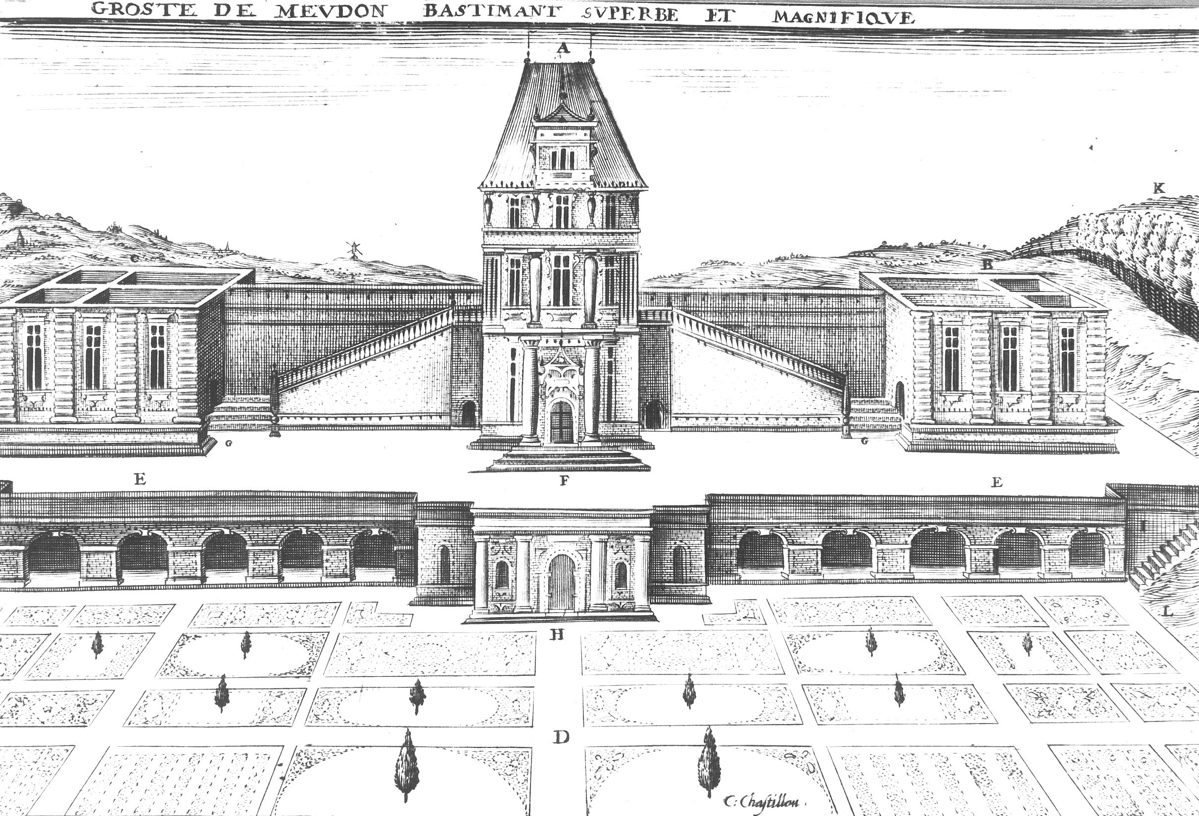 Engraving of the grotto of the château de Meudon